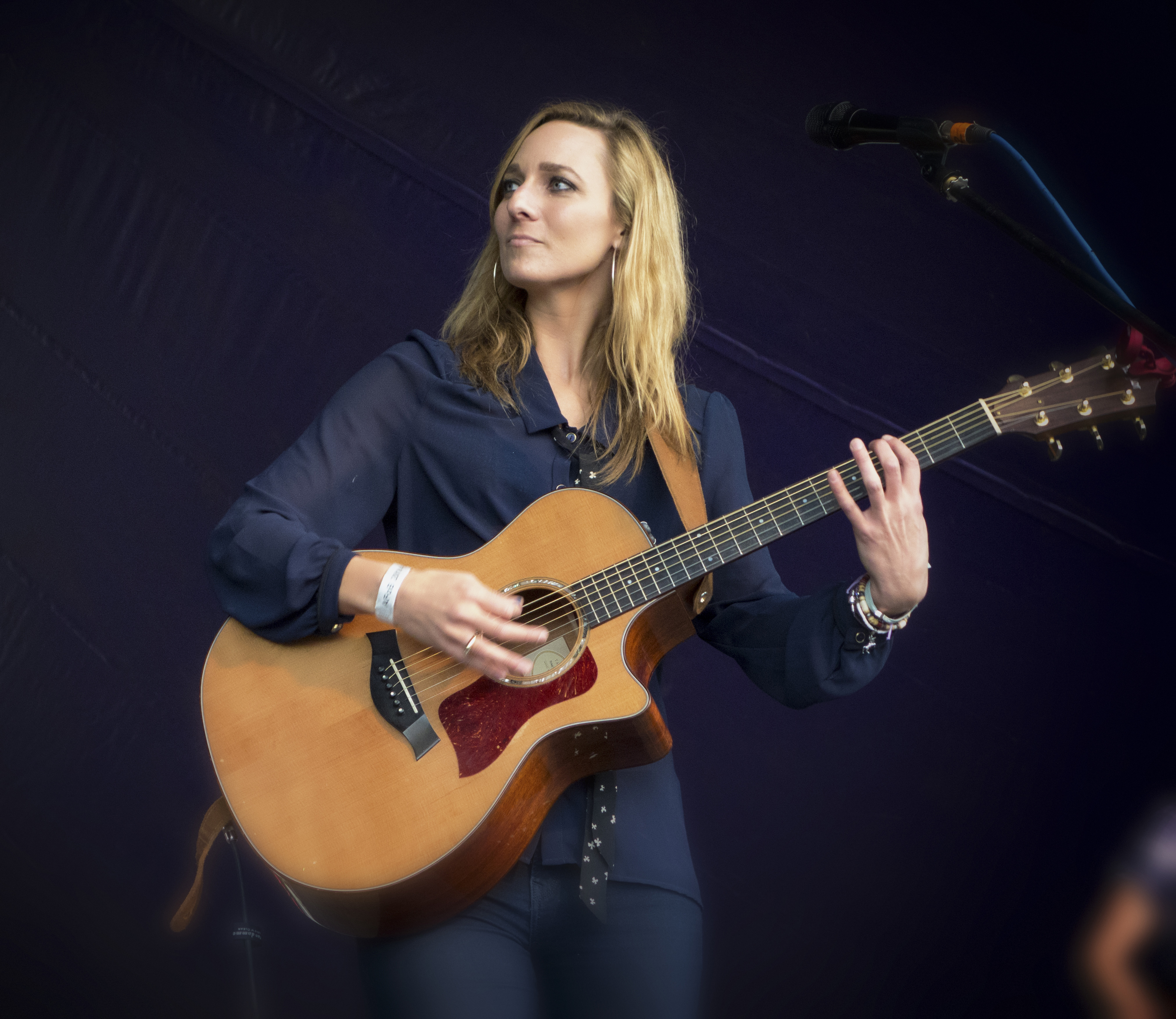 Photo of Emma Stevens, Singer-Songwriter, performing at the Acoustic Festival of Britain, June 2014